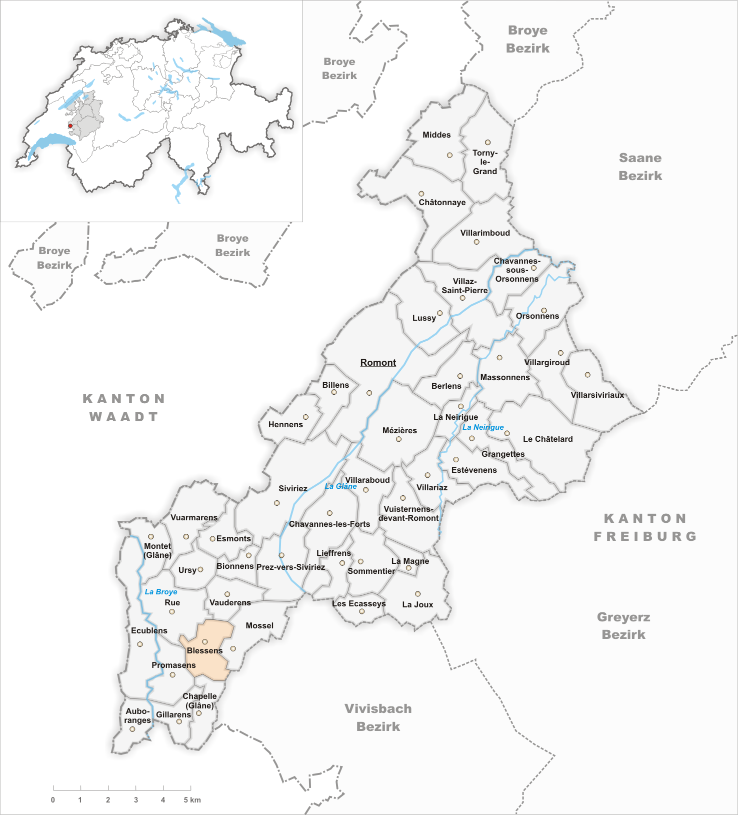 Municipality Blessens Artist: Tschubby